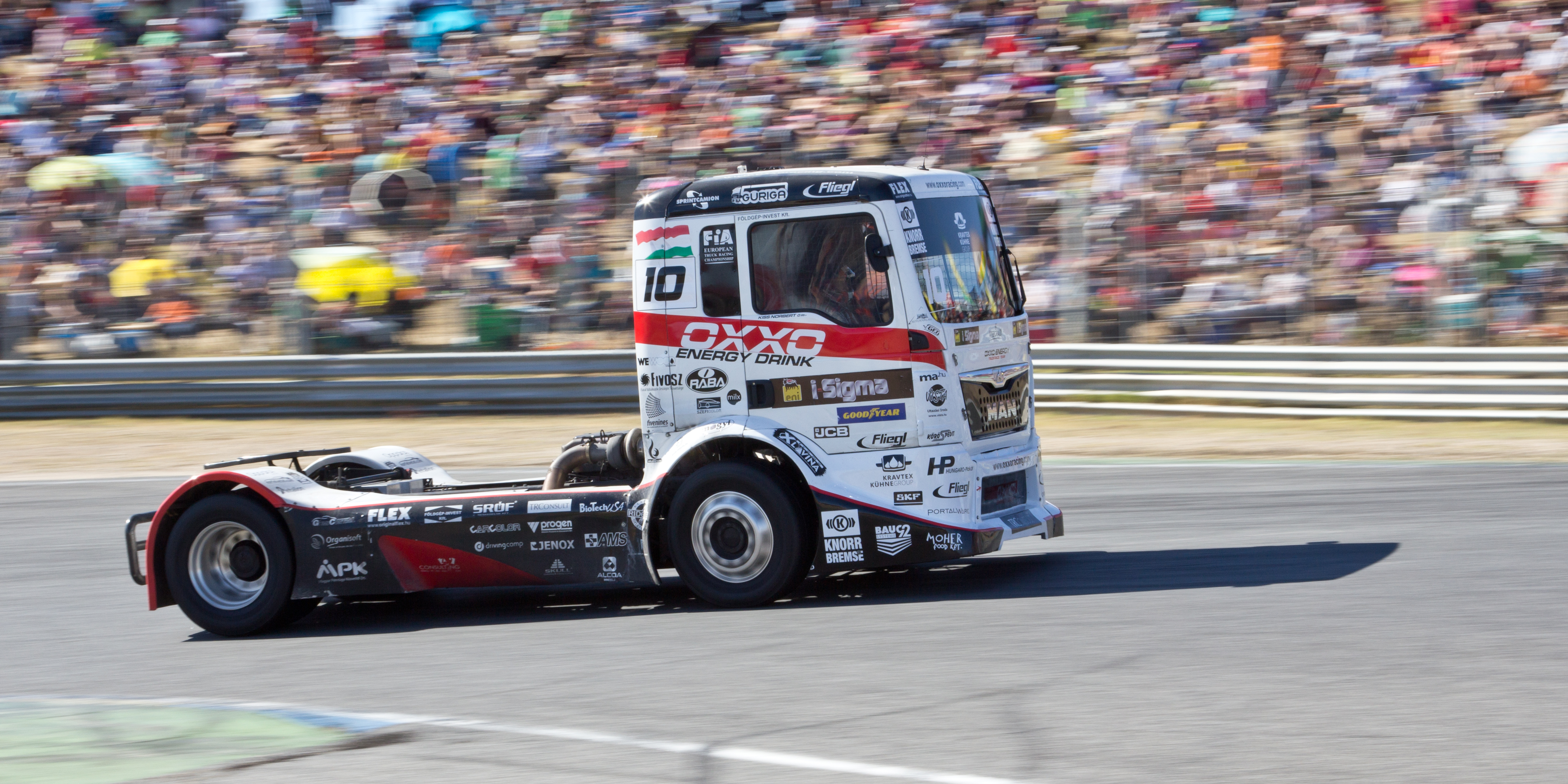 Truck pilot Norbert Kiss at the Spain Truck GP 2013.